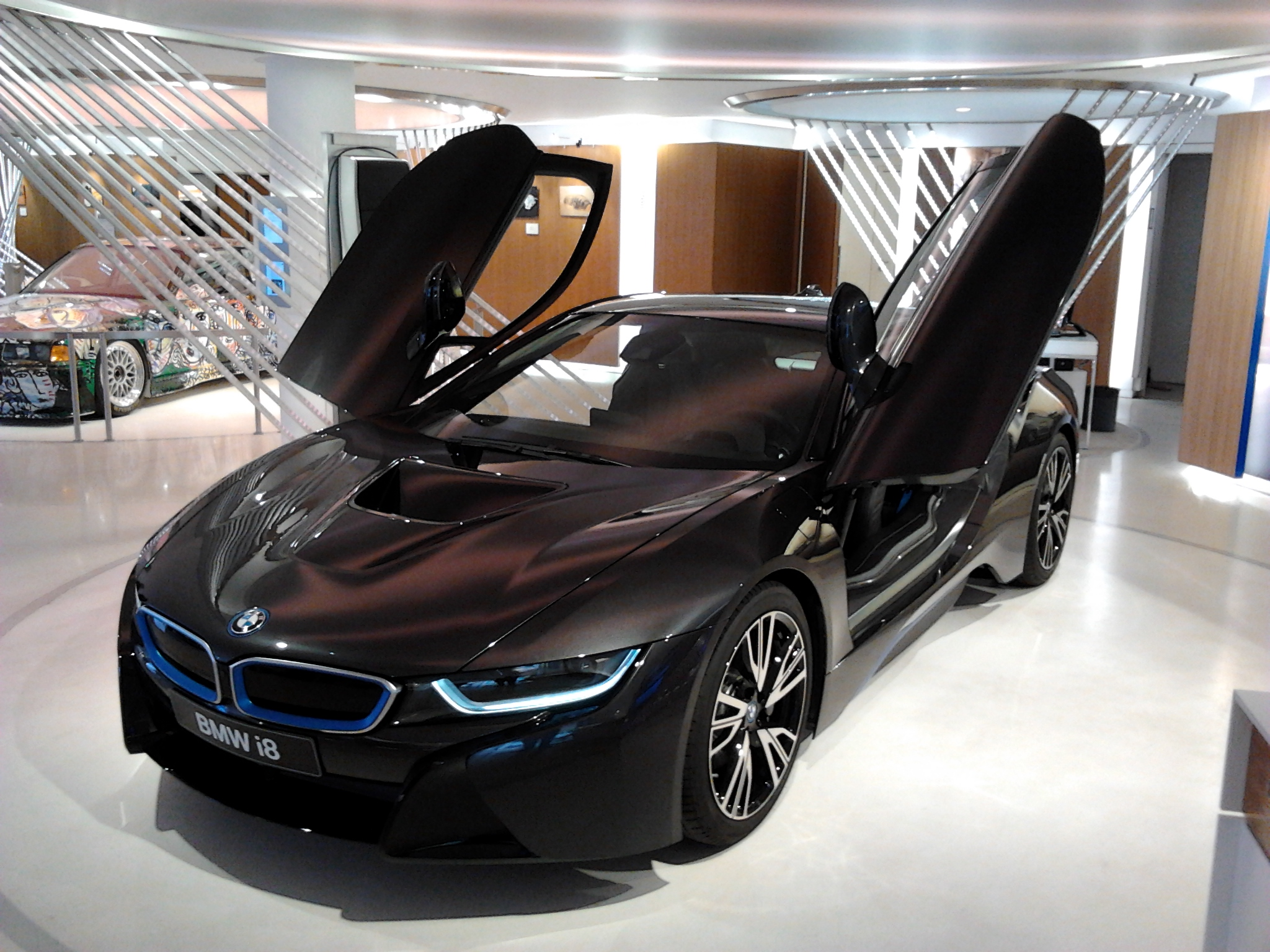 BMW i8 plug-in hybrid